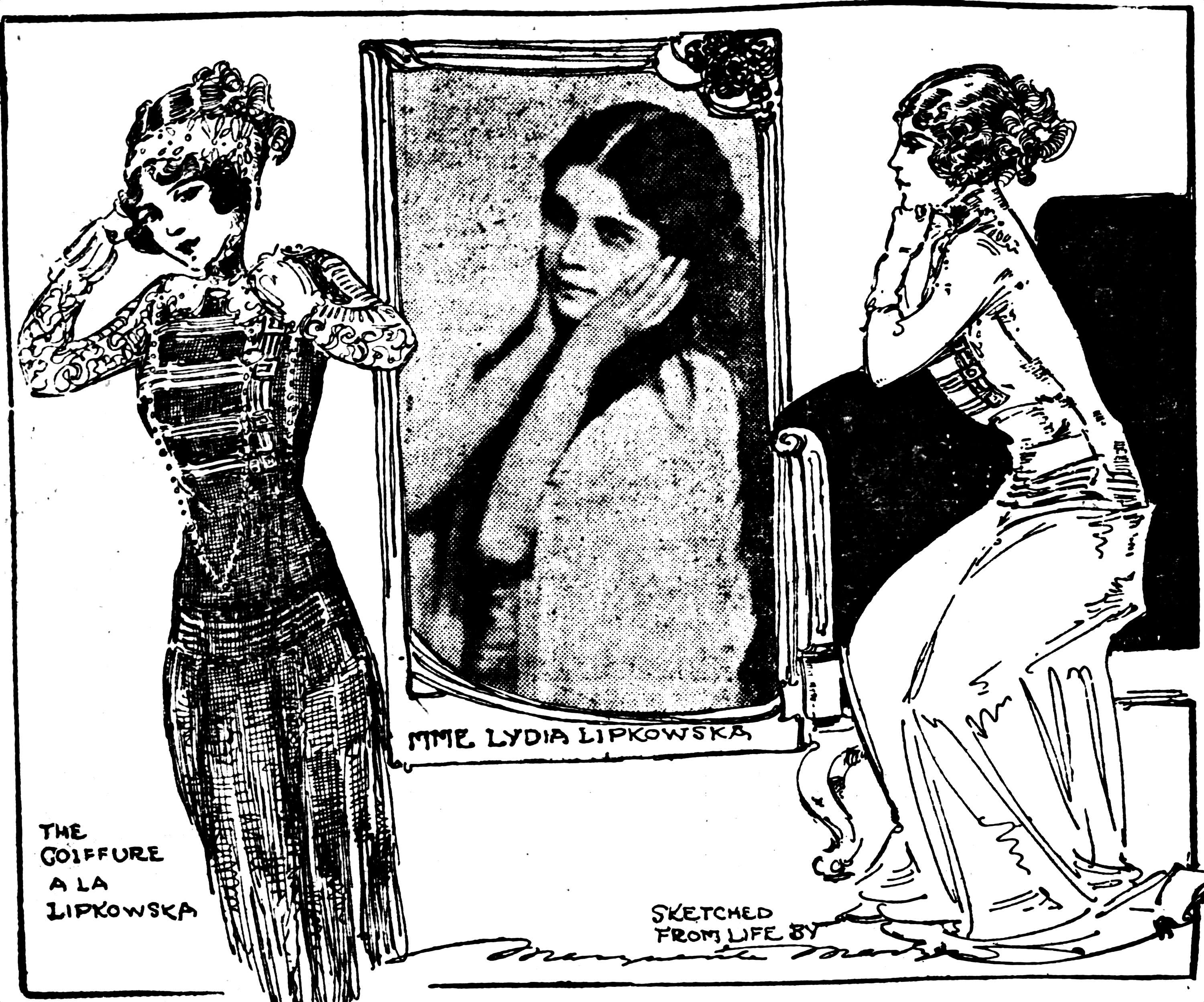 Photo and two drawings of Lydia Lipkowska by Marguerite Martyn, published in the St. Louis Post-Dispatch, 1910